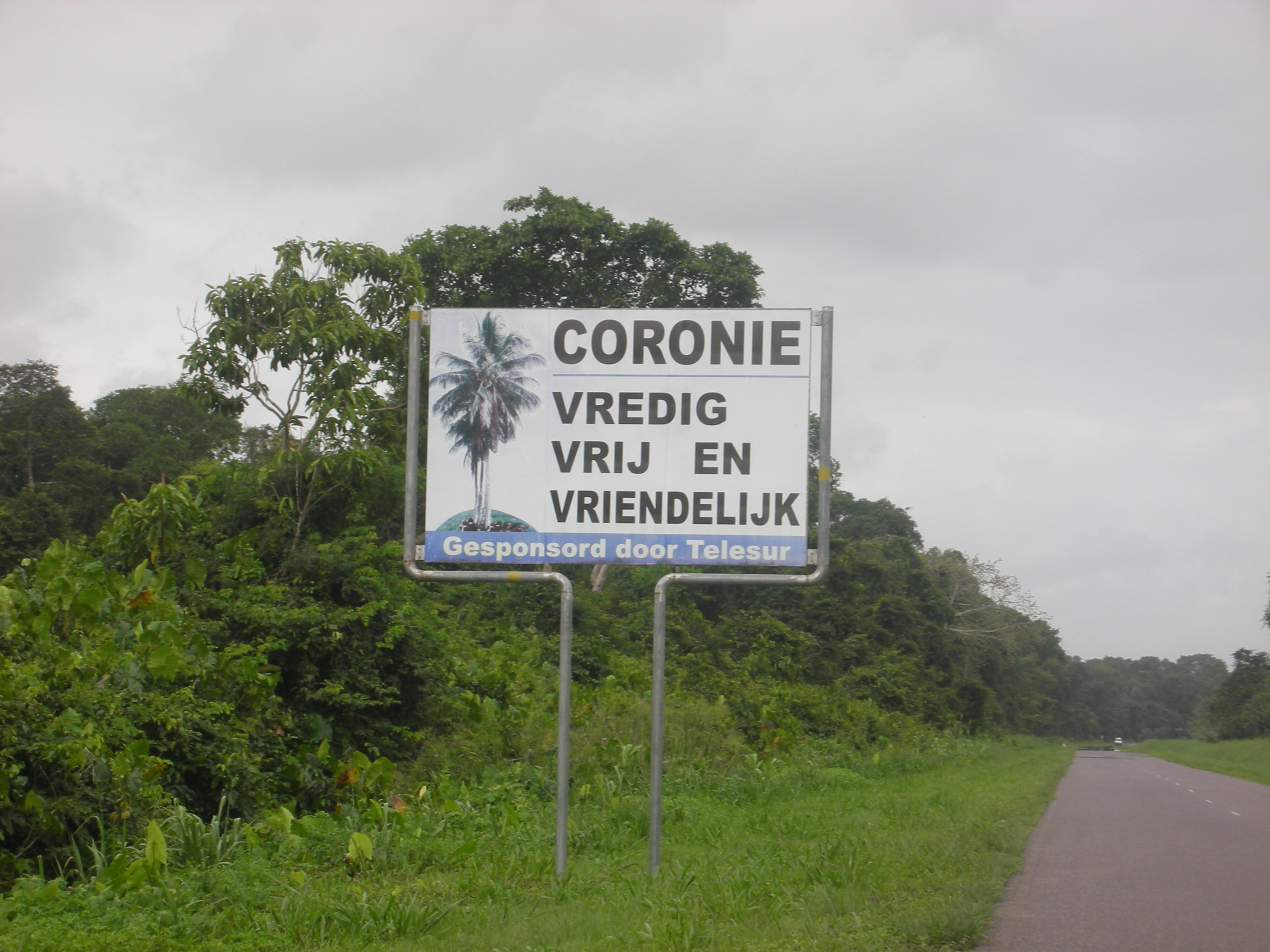 Sign showing the border of the Coronie District in Suriname. The large text reads "Peaceful, free and friendly."